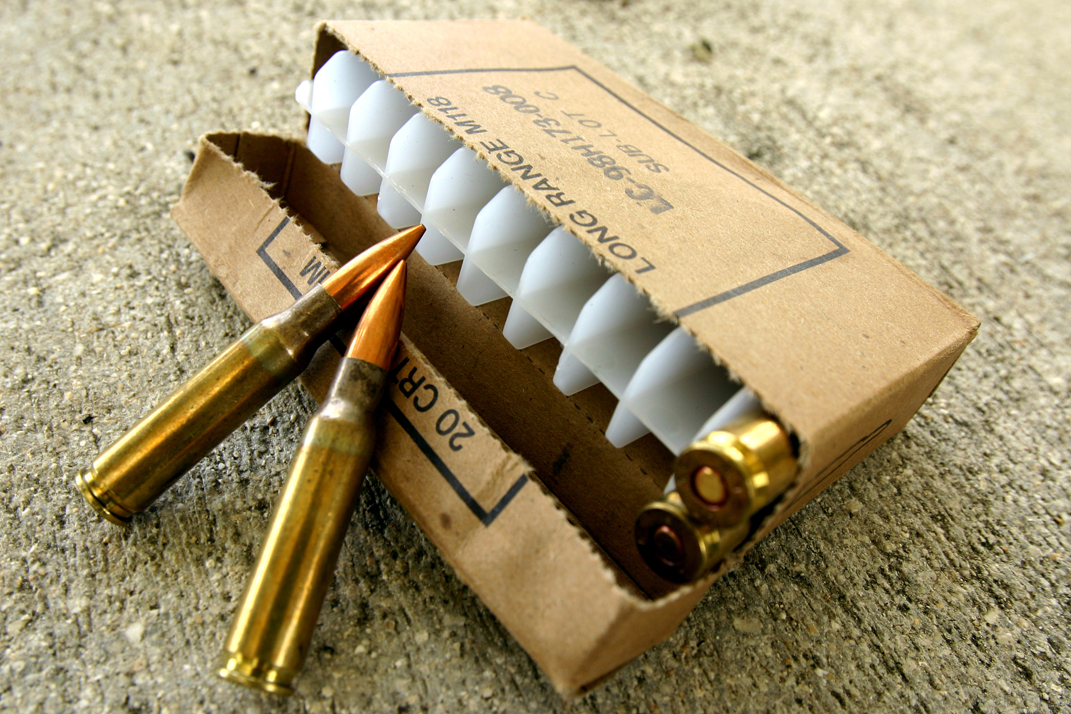 Snipers of the 31st Marine Expeditionary Unit’s Maritime Special Purpose Force are issued the M118 long range ammunition, which is specially produced match-grade military ammunition. This ammunition is manufactured to a higher standard, which provides improved accuracy over standard military ball ammunition to help provide the precision required for the snipers to make a one-inch shot group from one hundred yards. Photo ID: 20068914337 Submitting Unit: 31st MEU